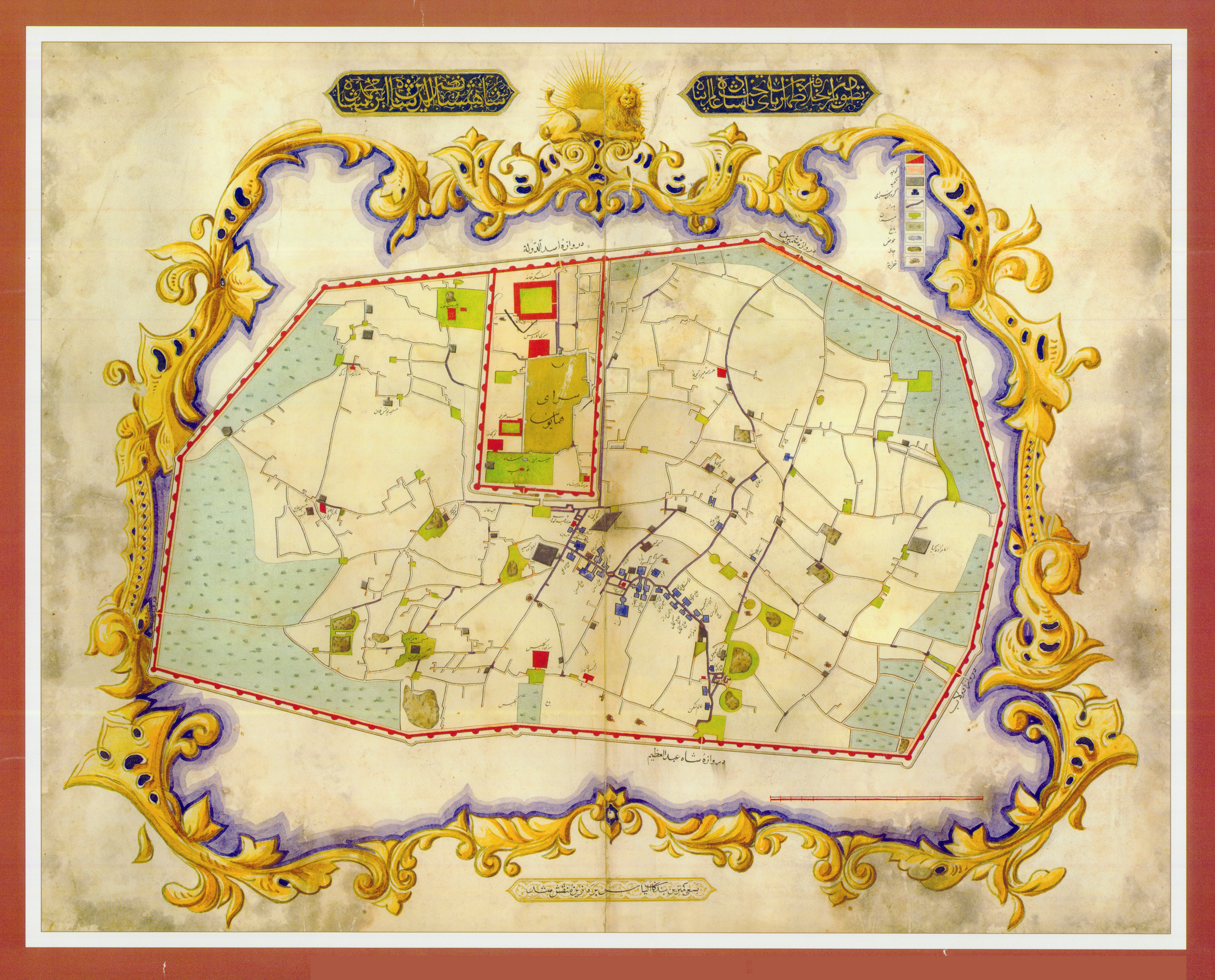 Second Tehran map